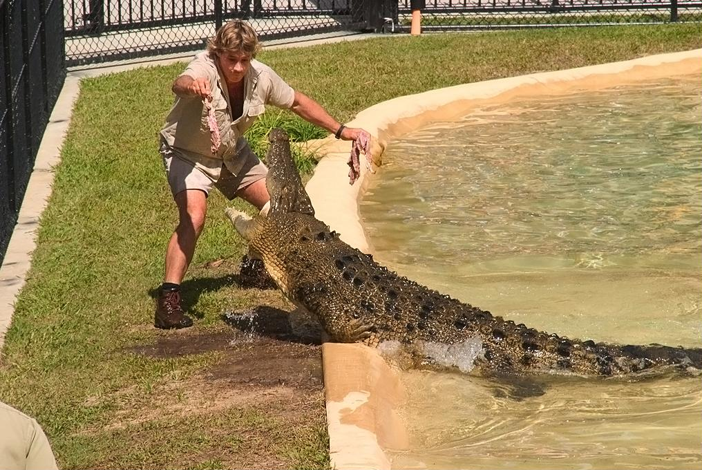 Australia Zoo Steve Irwin feeding Crocodile back on 15 April 2004